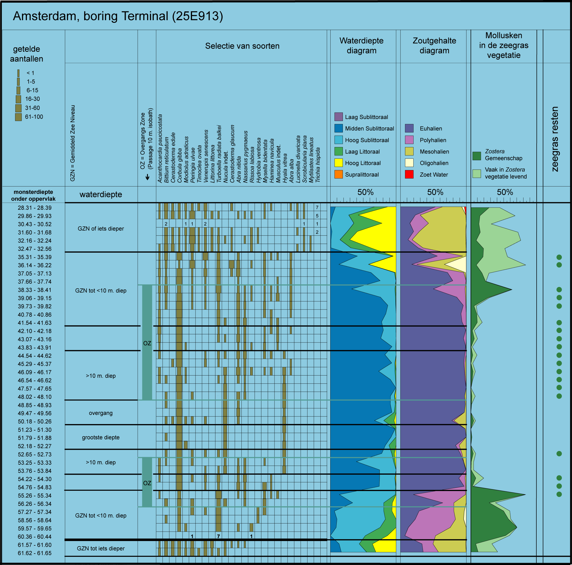 Amsterdam borehole 'Terminal' (Parastratotype Eemian Interglacial) - Molluscan diagrams